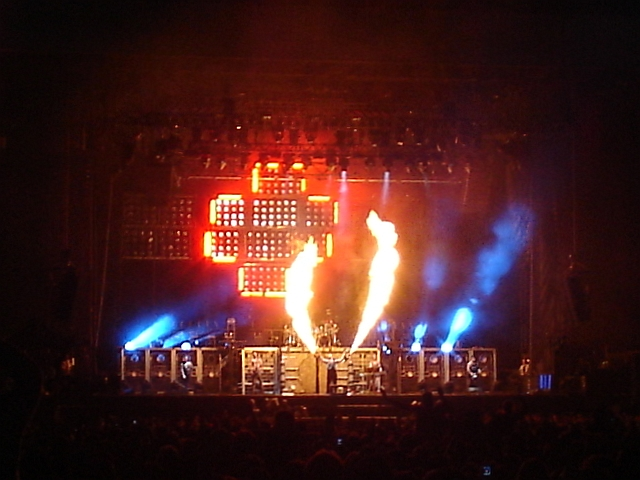 Rammstein performing live at the Rock Werchter 2005 festival.